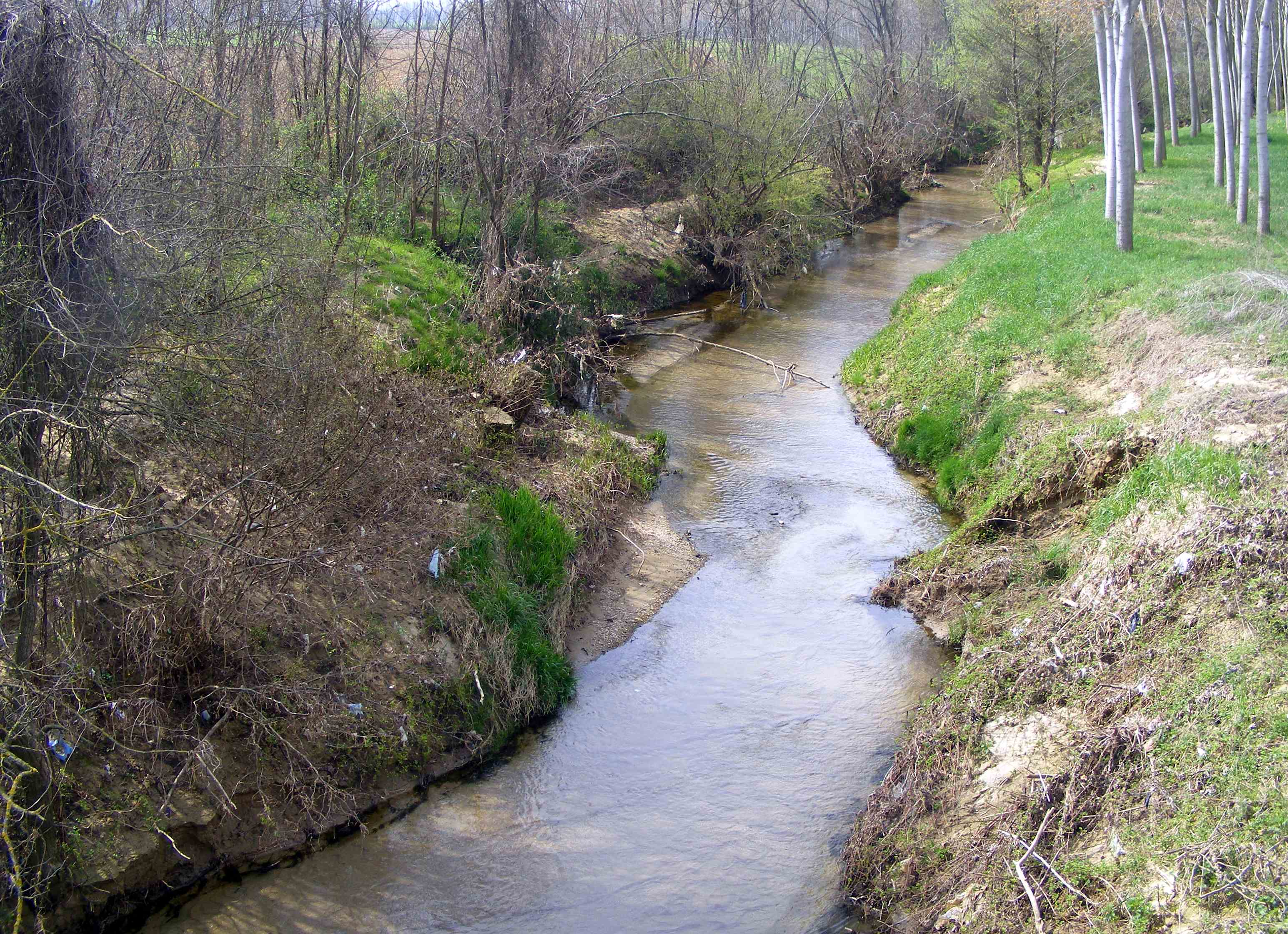 Rioverde from the bridge of the Poirino-Carmagnola provincial road (TO, Italy)